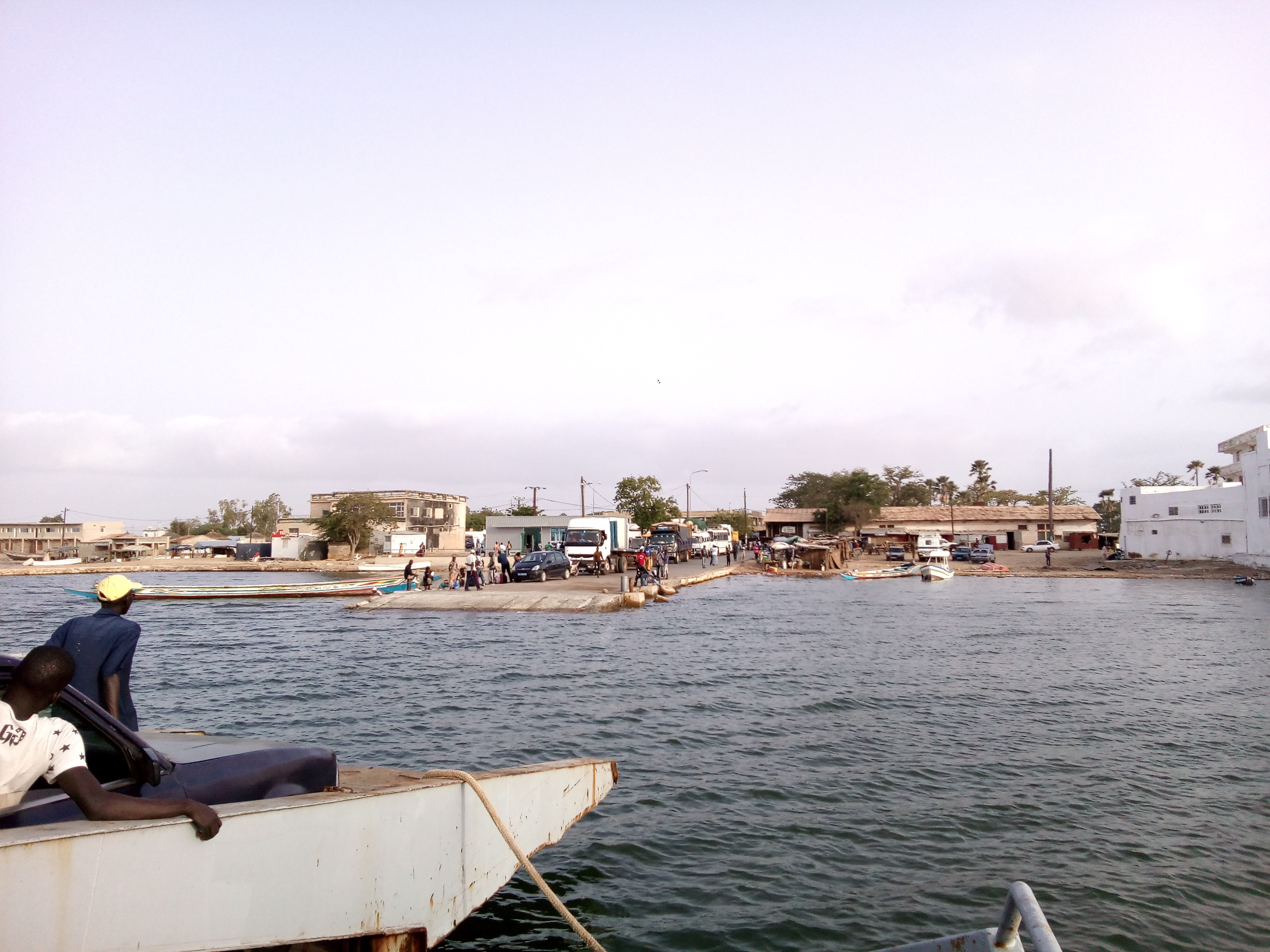 Foundiougne ferry approaching the left bank (south bank, towards Toubacouta and Gambia).